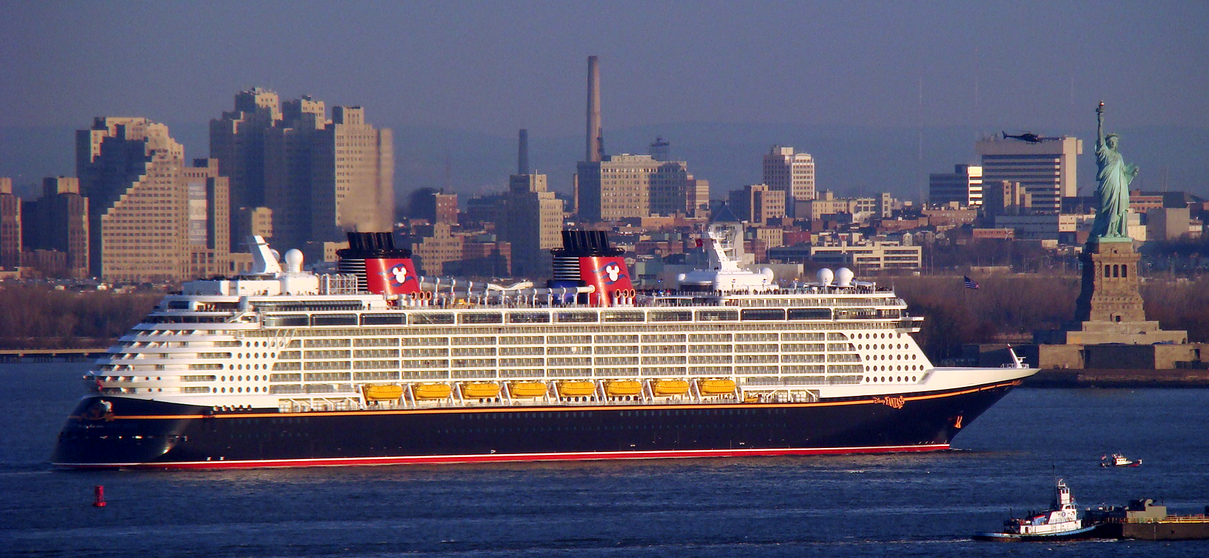 Arrival of the Disney Fantasy in New York City, after it's journey from Germany, passing by the Statue of Liberty. Picture taken from the 21st floor of the Bay Ridge Towers in Brooklyn at sunrise.